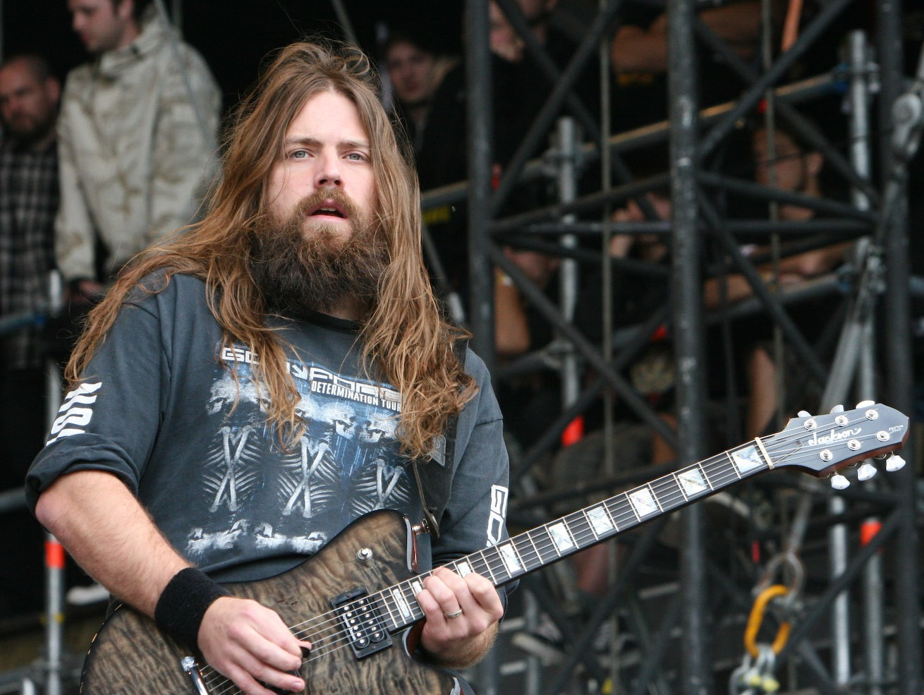 Mark Morton performing live with Lamb of God at With Full Force 2007